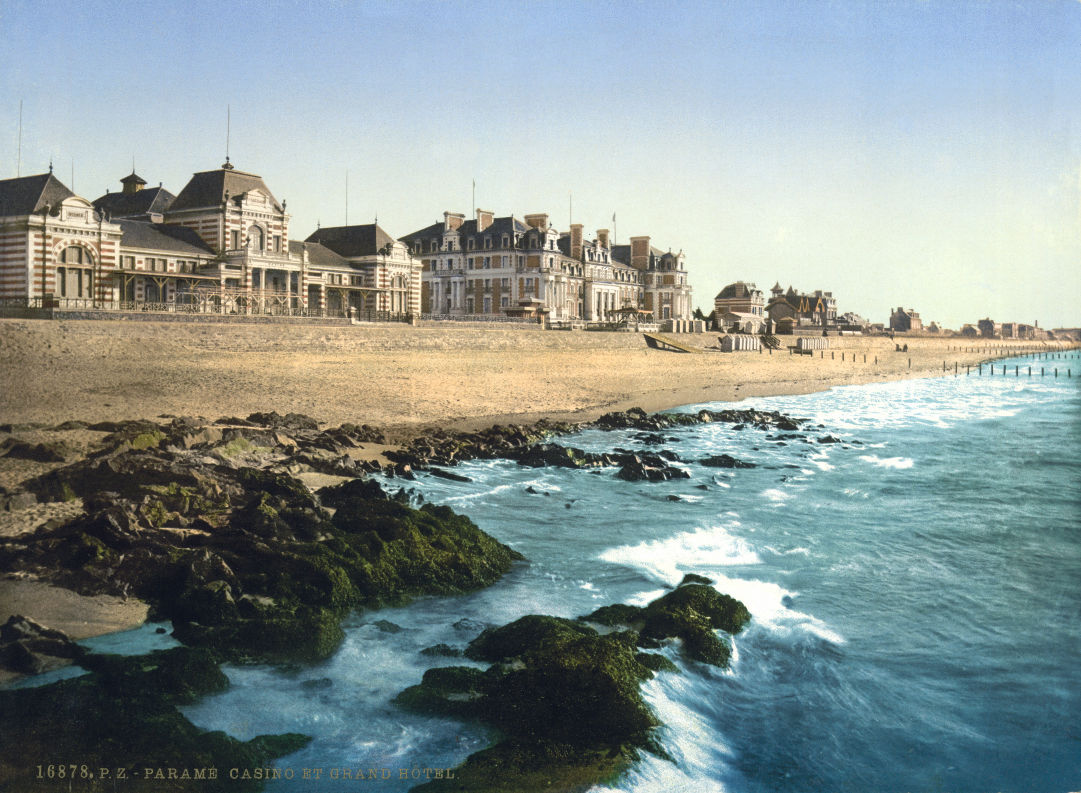 Casino and Grand Hotel, Paramé (now merged with Saint Malo), France